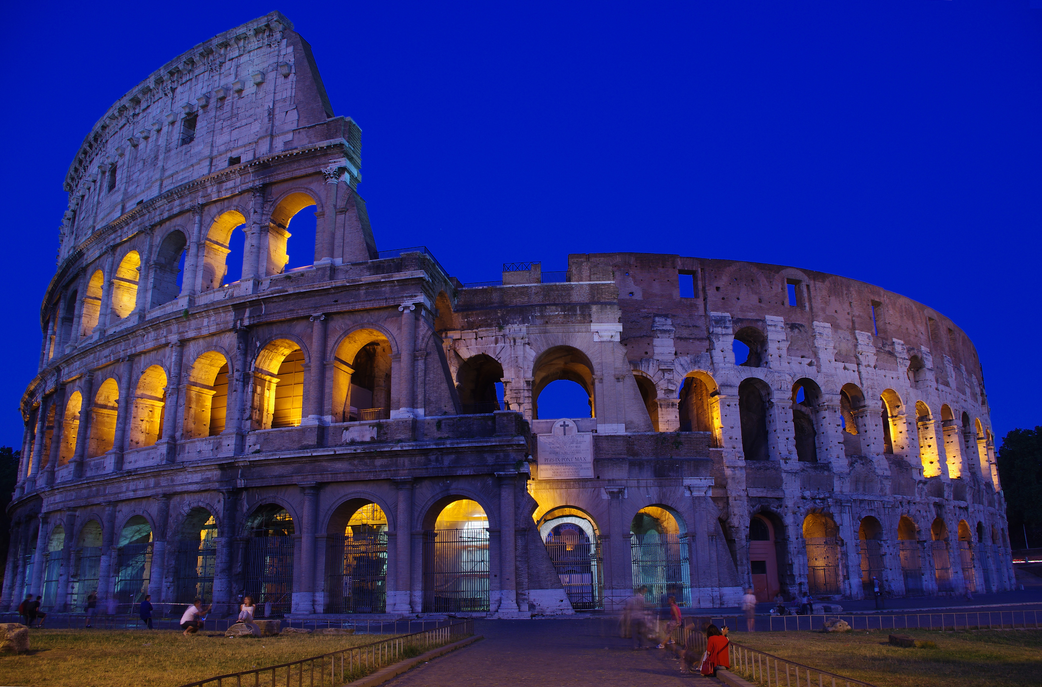 Taken on 15 July 2011.